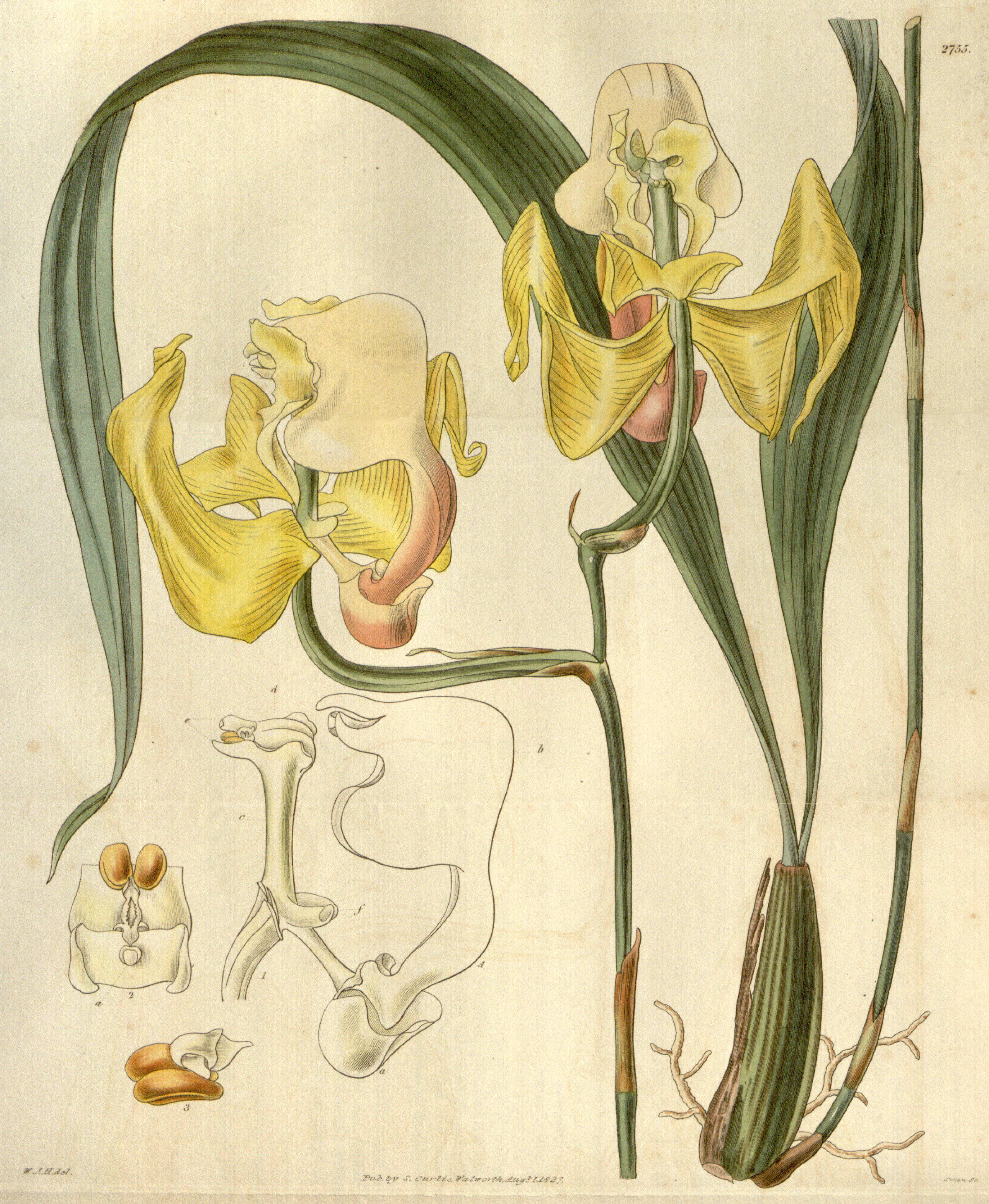 Illustration of Coryanthes speciosa (as syn. Gongora speciosa))